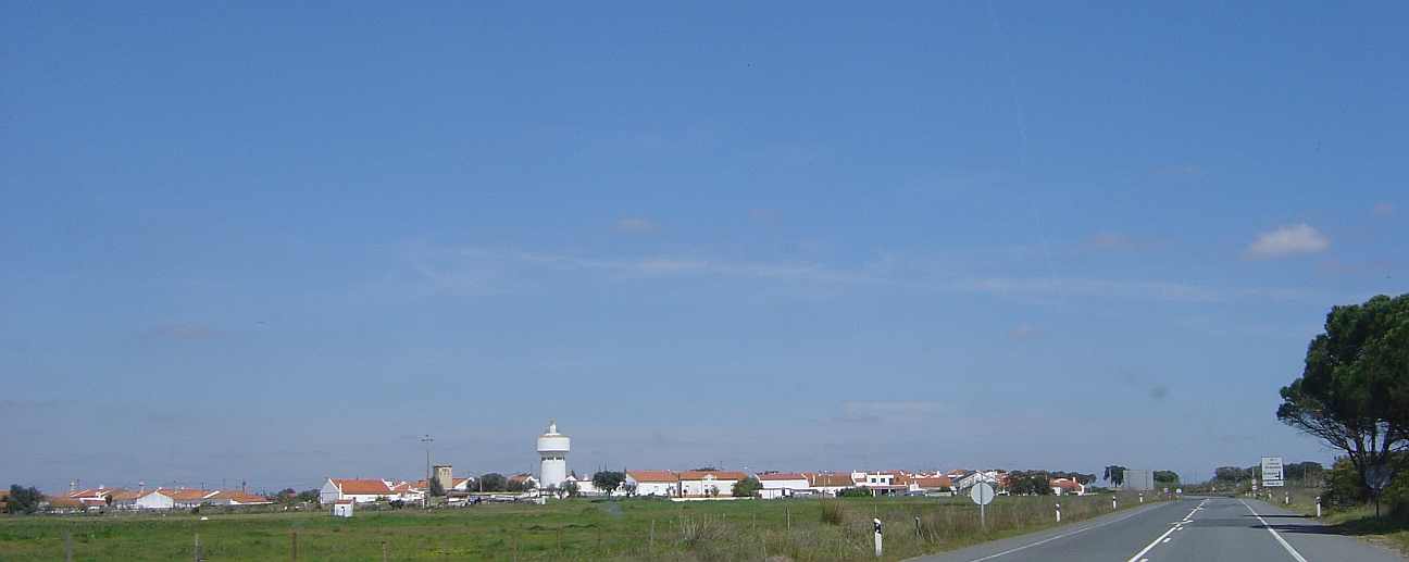 View of Ermidas-Sado, Santiago do Cacém, Alentejo, Portugal